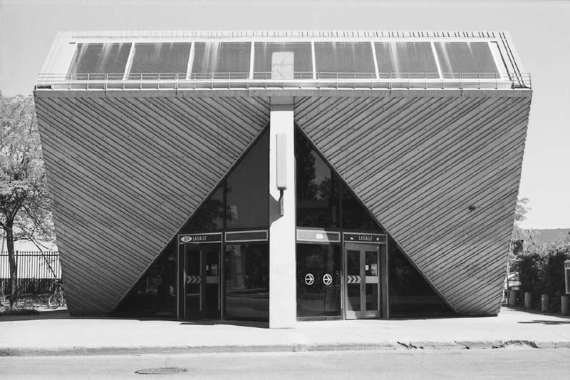 The exterior of the LaSalle metro station in Montréal, Québec, Canada, on the system's Green Line.